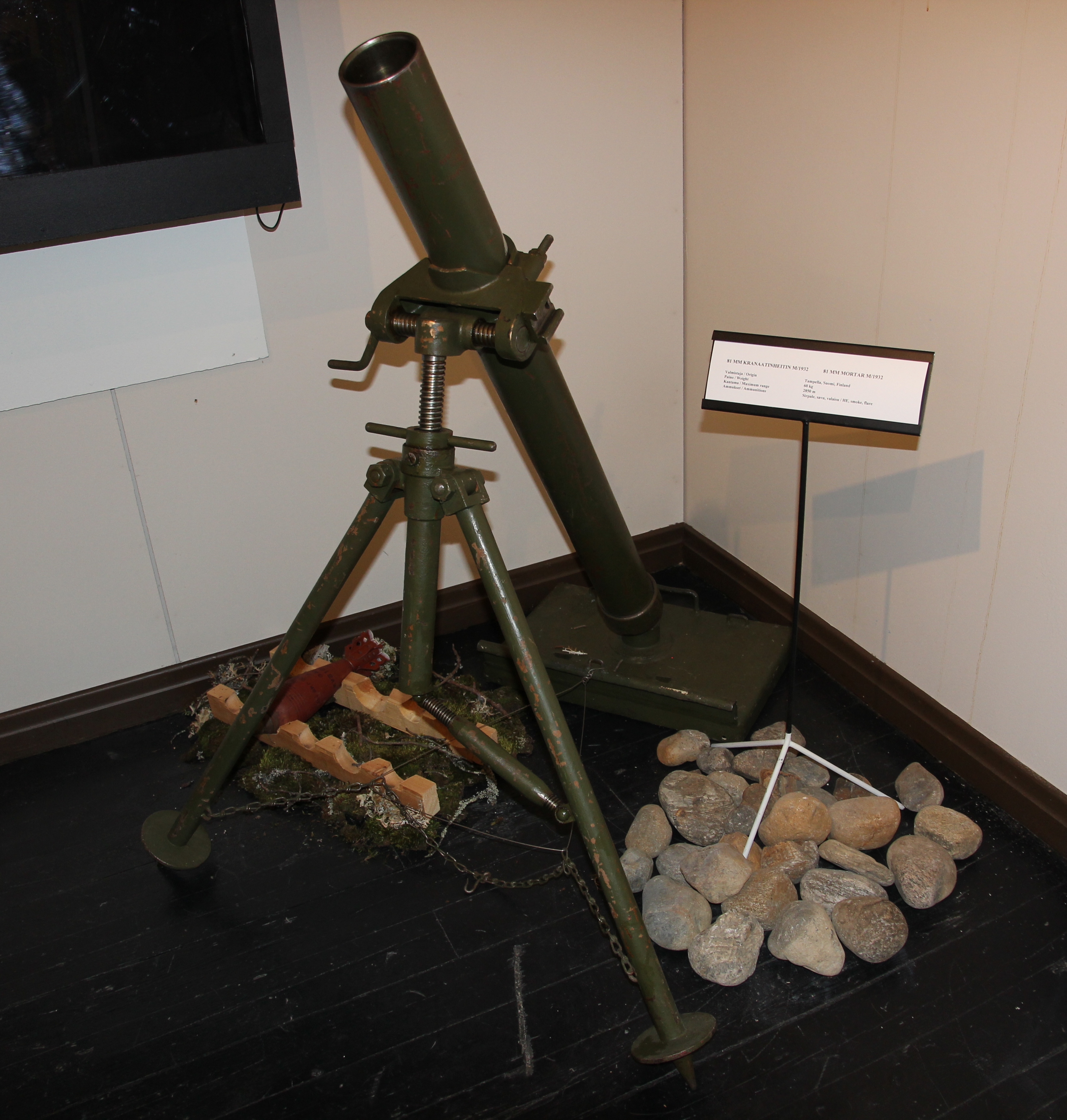 Finnish 81 mm mortar model 1932 by Tampella. Photographed in Mikkeli Infantry museum.